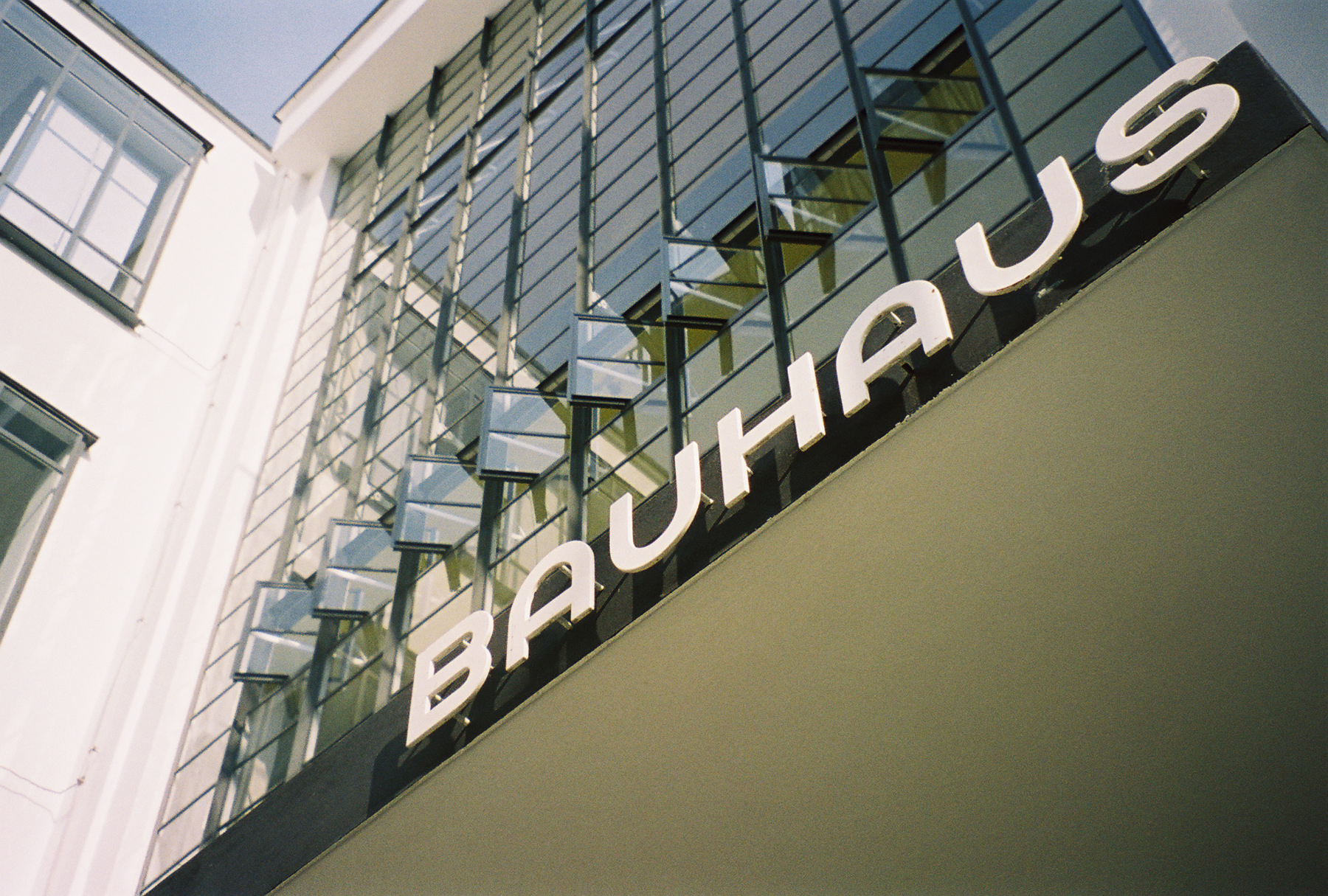 Type designed by Herbert Bayer for the Bauhaus in Dessau, above the entrance to the workshop block. Jim Hood, May 2005.